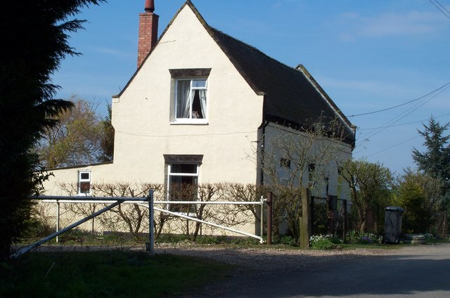 Station House Middle Drove